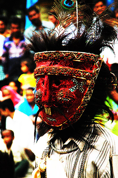 Each Gavari troupe has a Budia figure who is half Siva and half demon and protects the energy the shamans & players generate from misappropriation and misuse